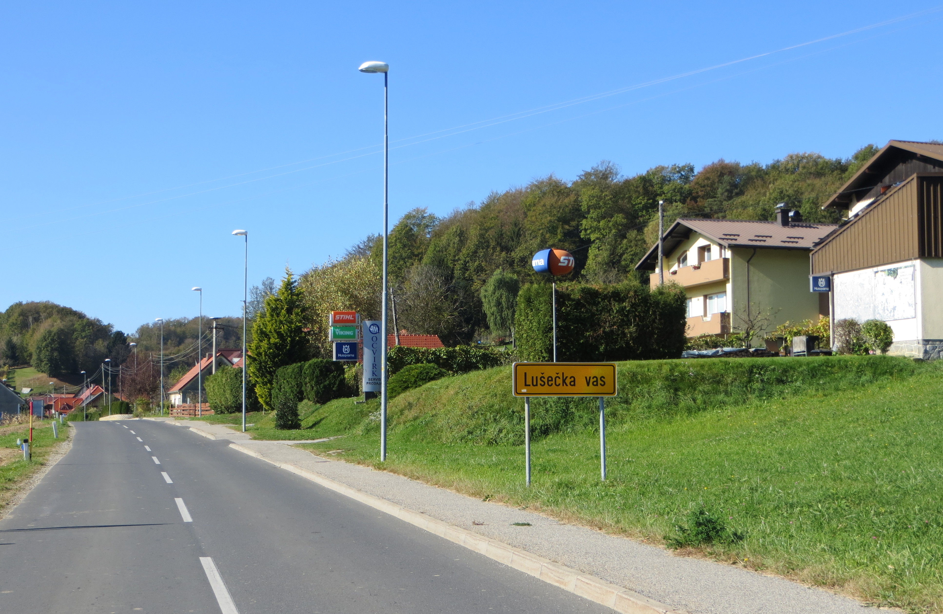 Lušečka Vas, Municipality of Poljčane, Slovenia